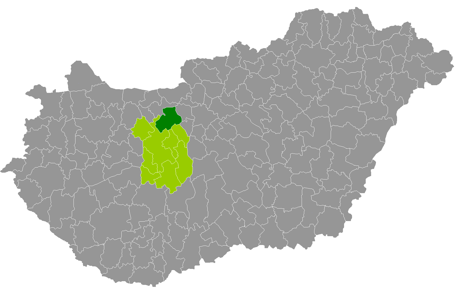 Location of Bicske District, Fejér, Hungary